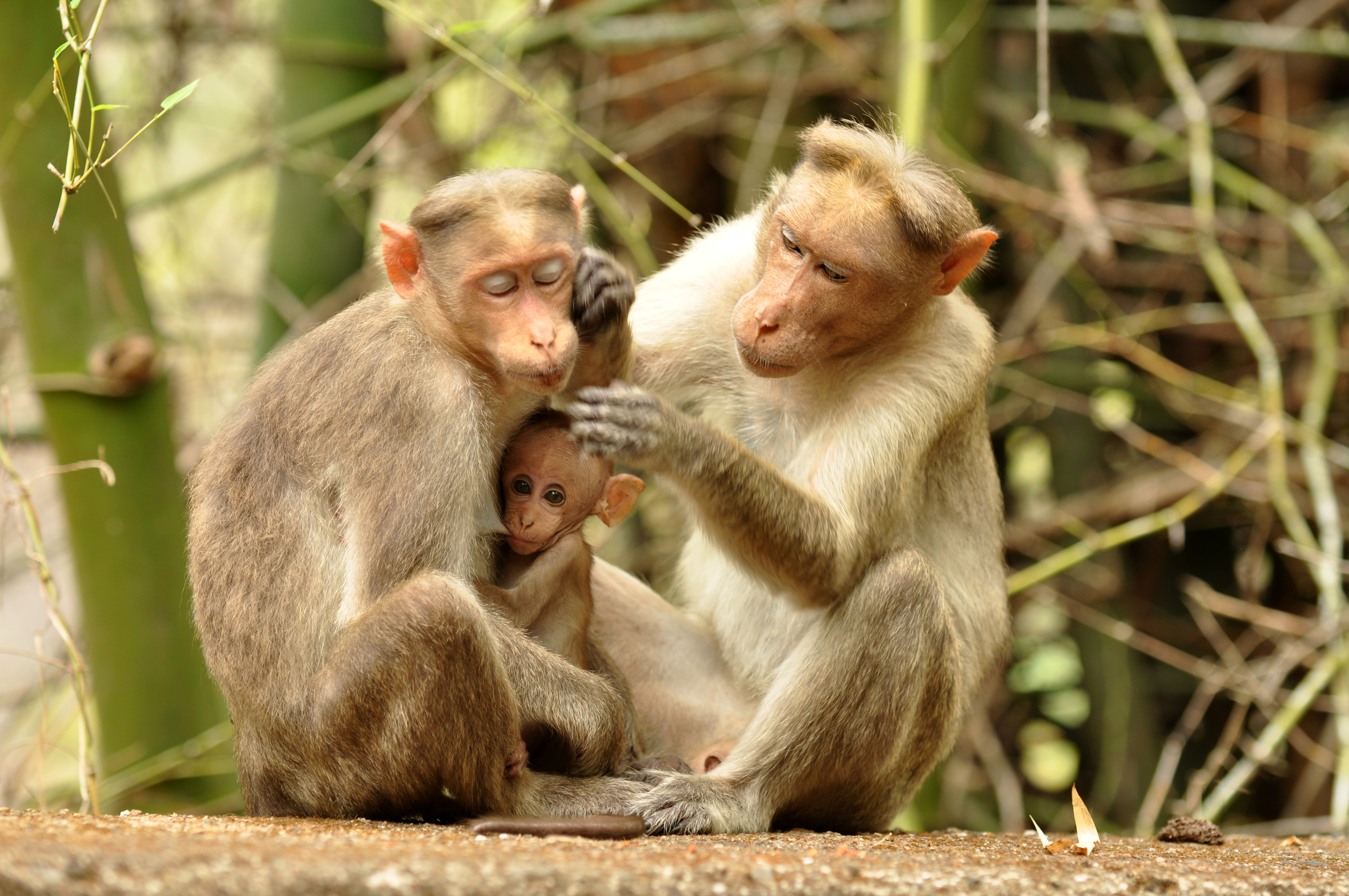 Bonnet macaque family unit